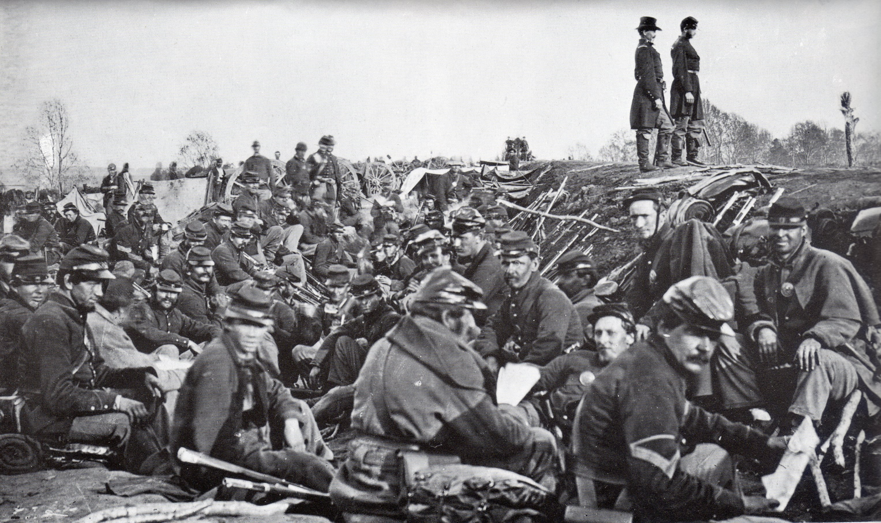 Assaults on fortified positions were costly, but here at Chancellorsville war-weary Union infantrymen await their turn for another charge against Confederate works, however, they will be suprised by Confederate bombardment . Approximately, fifty percent out of every regiment would be killed. Photo taken in the Lincoln Memorial store shop in 2000 at Washington D.C.